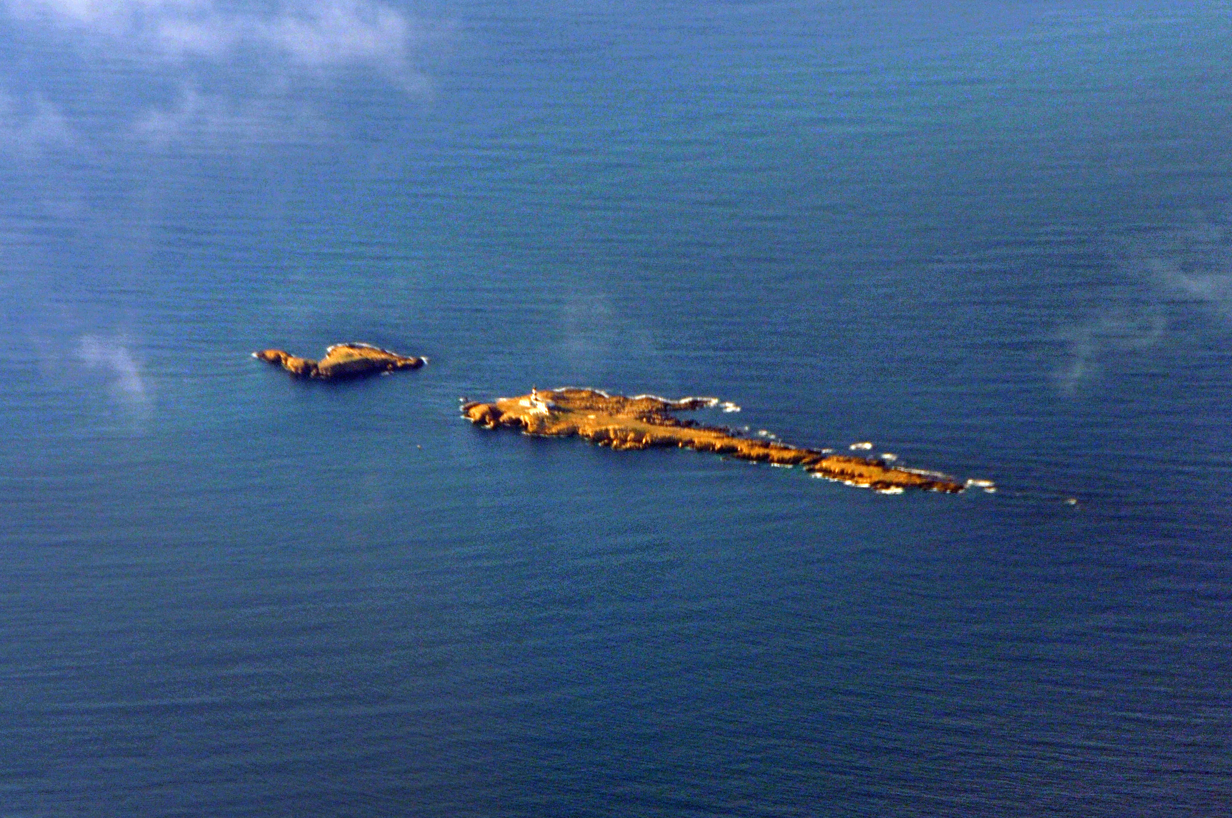 Aerial view of Cani Islands (Tunisia) in the Mediterranean